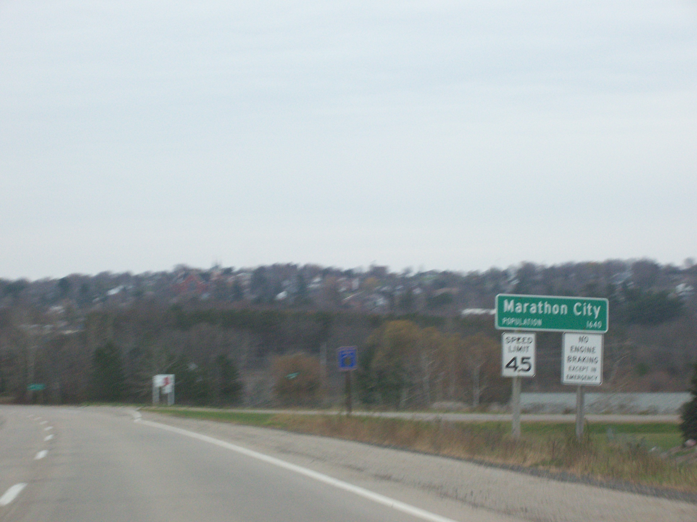 Looking south at the sign and an overview of Marathon City, Wisconsin, USA while traveling on Wisconsin Highway 107.